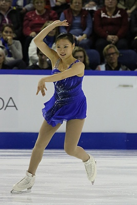 Skate Canada 2014 – Ladies (Hae Jin KIM KOR – 9th Place)